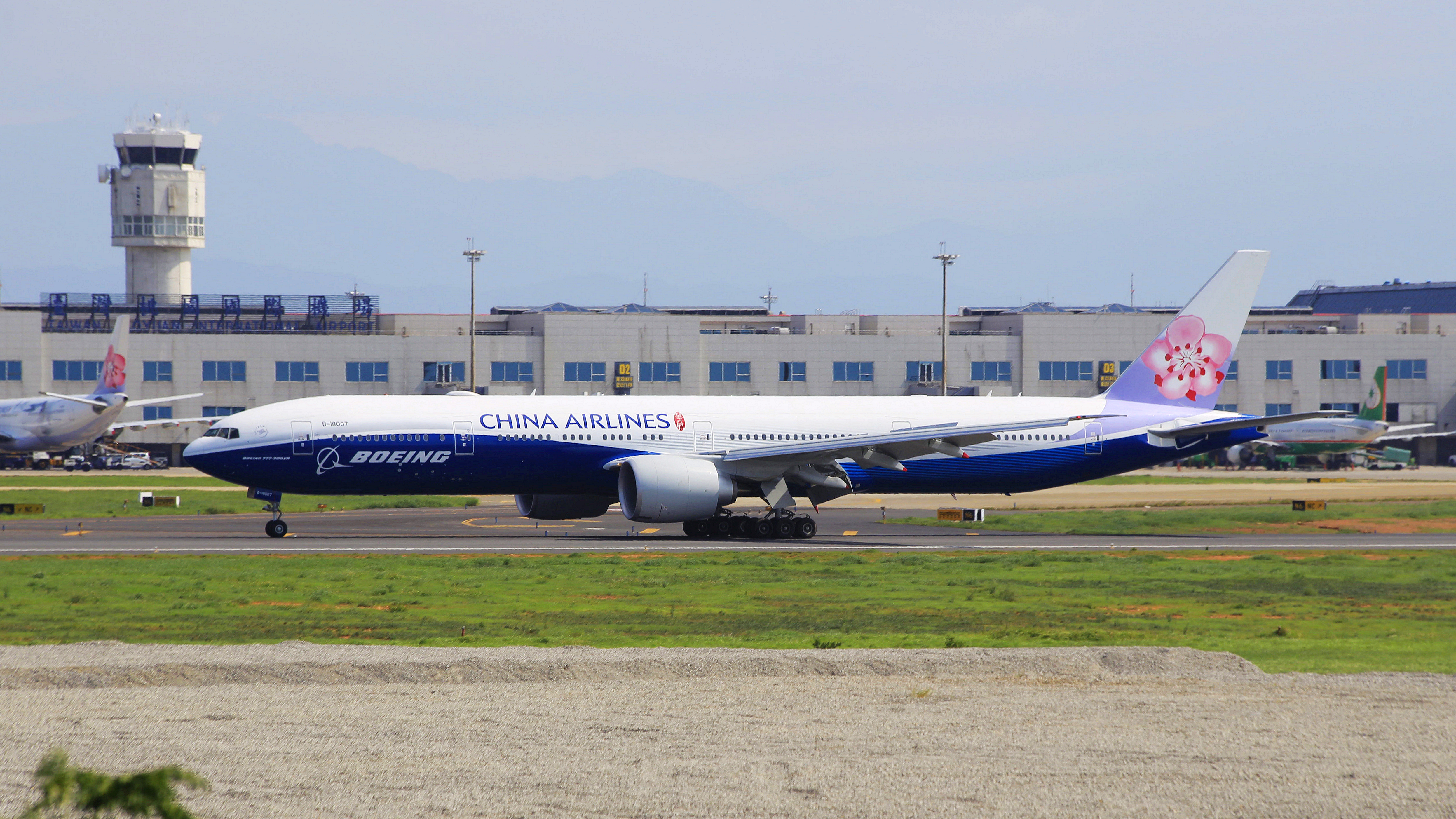 China Airlines Boeing 777-309(ER) at Taiwan Taoyuan International Airport